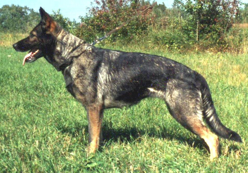 Black sable (or grey) German Shepherd Dog, the original colour, still very common among working bloodlines. Only the tip of the hair of the outer coat is black, the rest and the entire undercoat is grey. Laika was about 90% DDR blood. Source: RealGSD, no usage restrictions --Rgsd 13:05, 14 August 2005 (UTC)